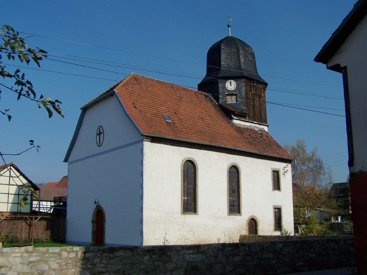 The church in Melborn.